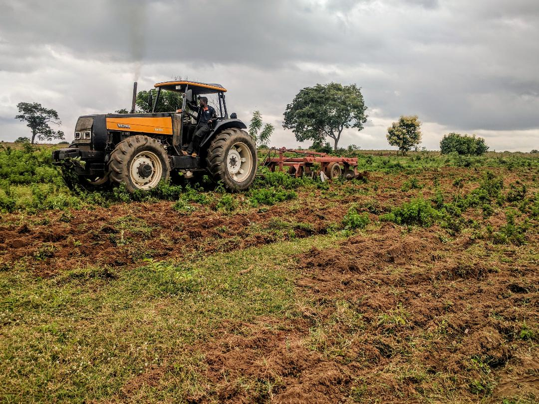 Agriculture in Nigeria is a branch of the economy, providing employment for about 30% of the population. The sector is being transformed by commercialization at the small, medium and large-scale enterprise levels. Mechanized agriculture is practiced in Kwara State, Nigeria. This is an image of "African people at work" from Nigeria